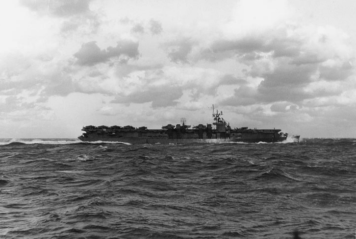 The U.S. Navy Independence-class aircraft carrier USS Langley (CVL-27) underway with a task force in the Pacific, 27 March 1945.